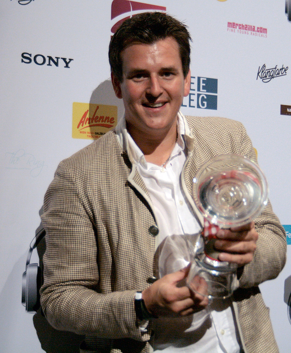 Marc Pircher at the Amadeus Austrian Music Award (Museumsquartier, Vienna)